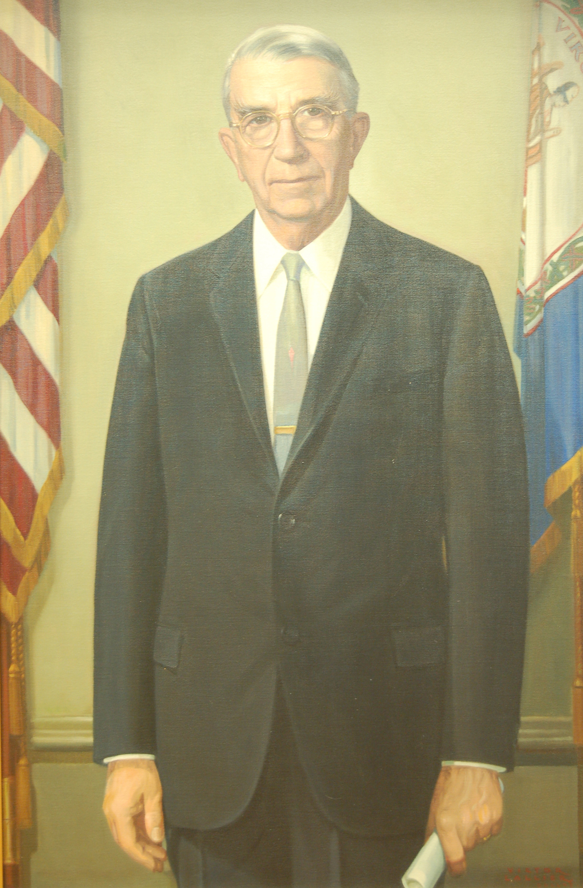 Howard W. Smith, member of the United States House of Representatives.